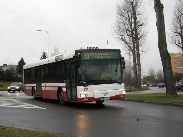 MAN NL 263 bus (#281, reg. PN 35617) in Konin, Poland. Built 2001, MZK Konin operator.